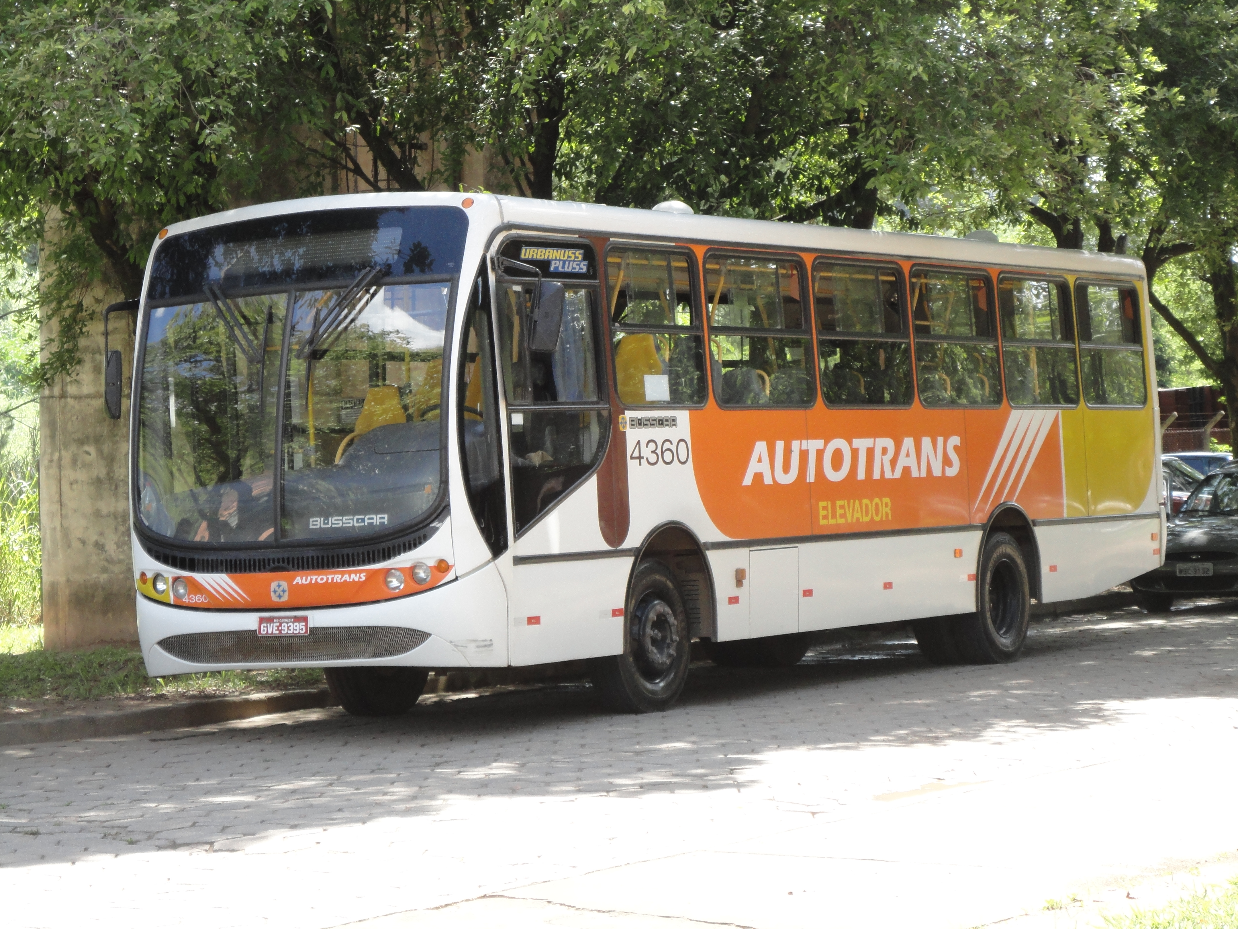 Autotrans Busscar Urbanuss Pluss bus (reg. GVE-9395, #4360) with unknown chassis in Timóteo, Minas Gerais, Brazil.